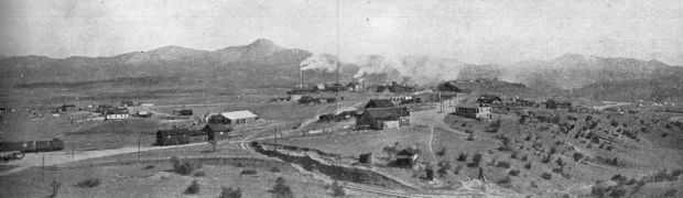 A view of the Arizona Smelting Company smelter, mill, and town of Humboldt in 1906, one year after the town was founded.